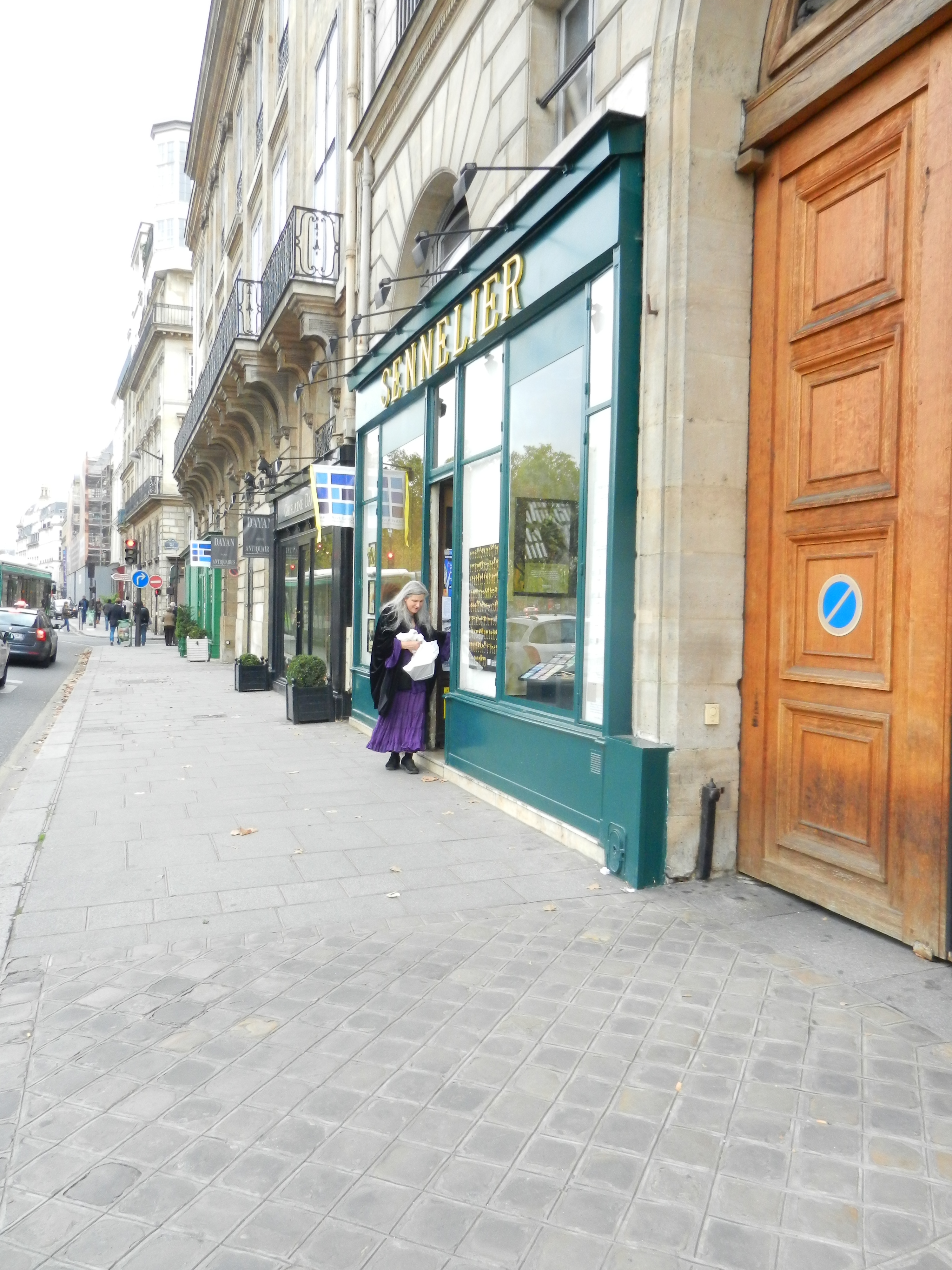 where Van Gough bought his art supplies!